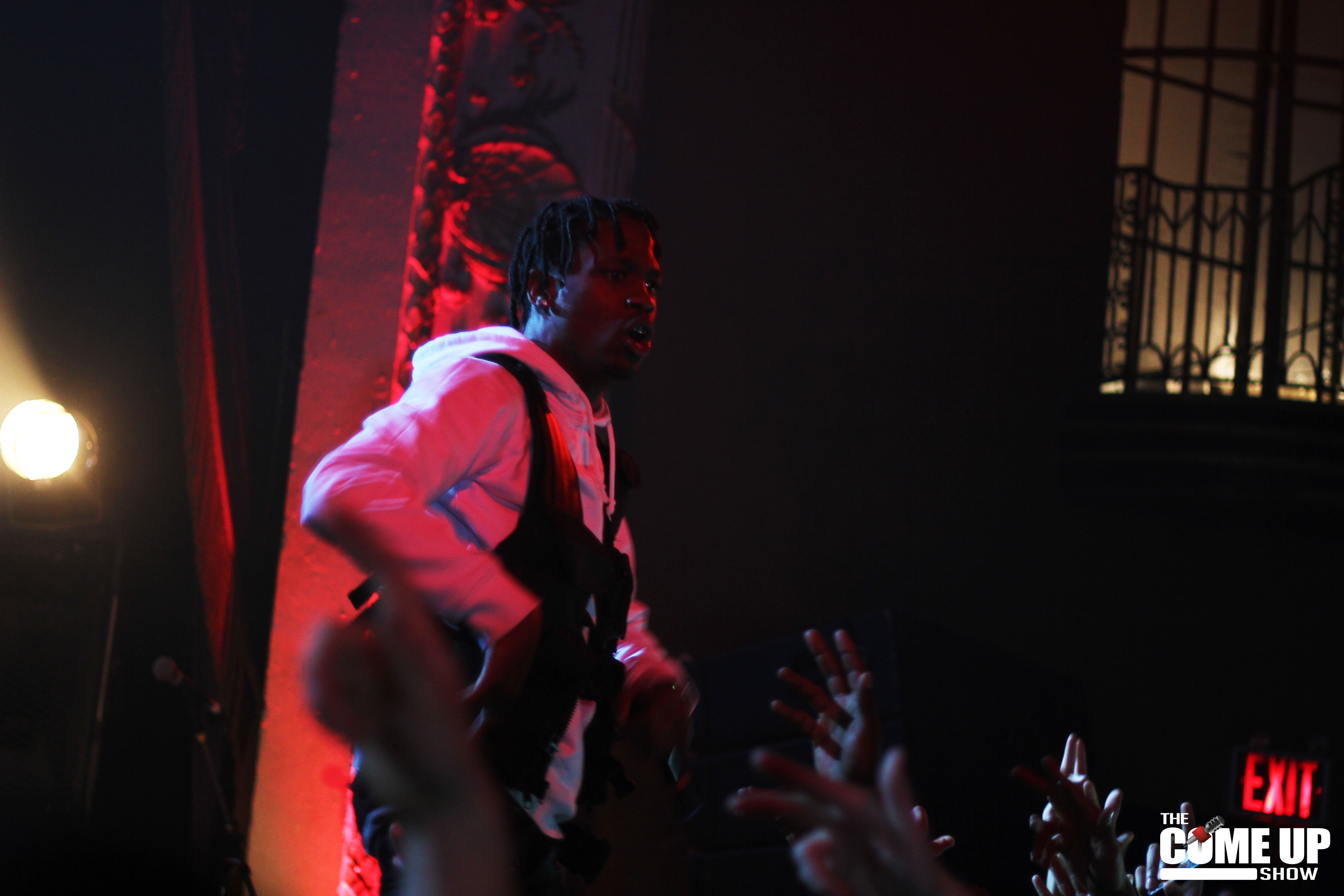 Travi$ Scott in 2014